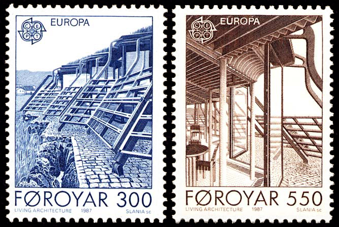 Postage stamps of the Faroe Islands. 1987. Issue of EUROPA-CEPT program.